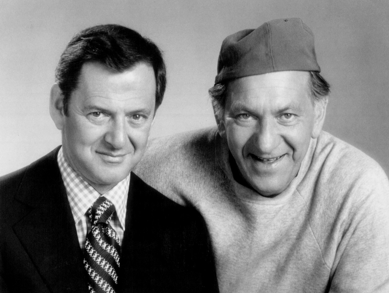 Photo of Tony Randall and Jack Klugman from the television series The Odd Couple.